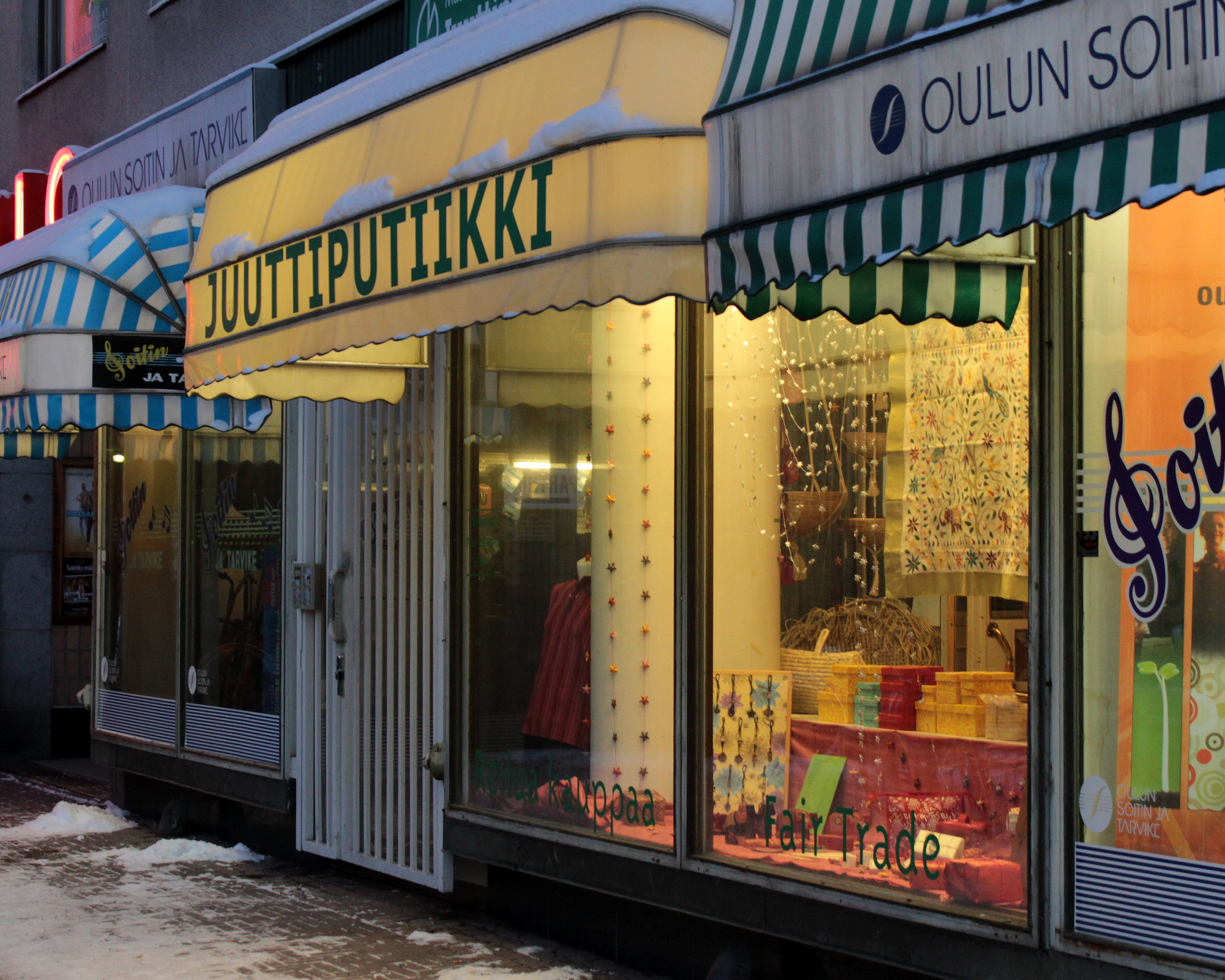 Juuttiputiikki, a fair trade store, in Oulu.